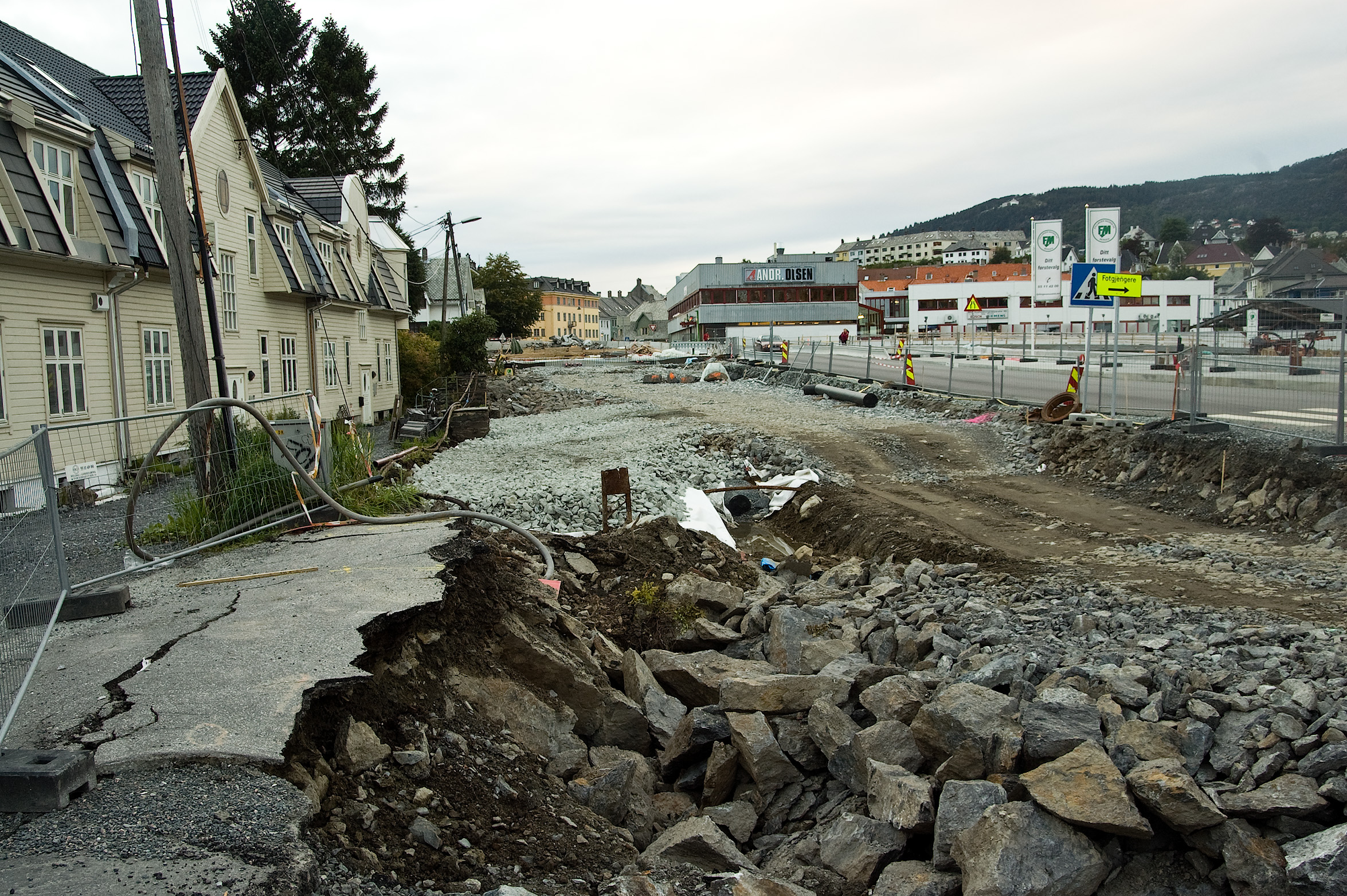 Bergen Light Rail under construction in Bergen, Norway.